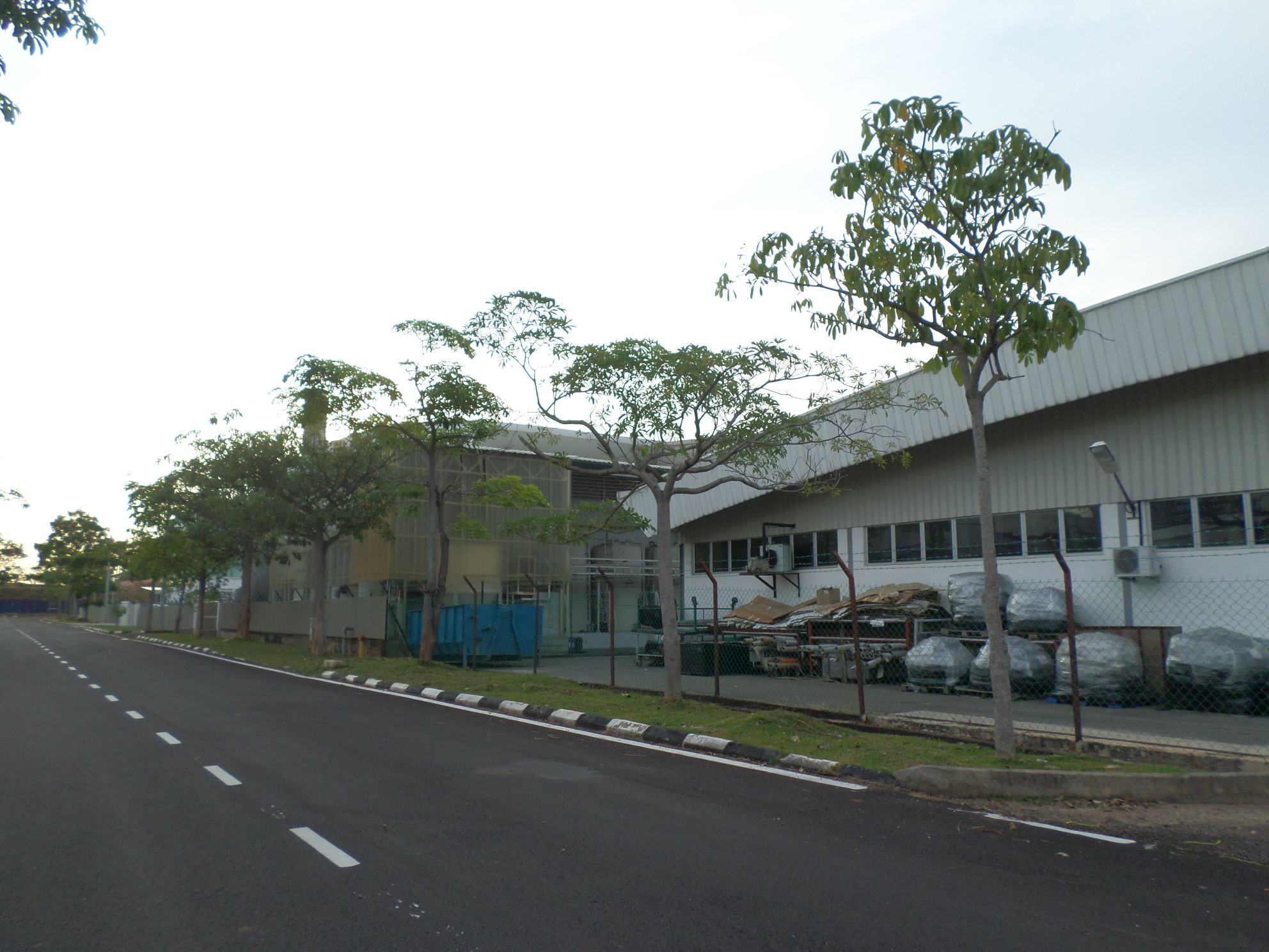 Taman Tasik Utama Industrial Area, Ayer Keroh, Malacca, Malaysia